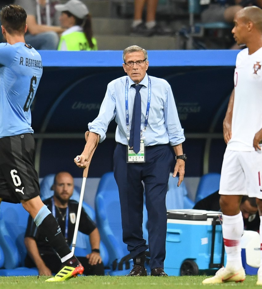 Óscar Tabárez